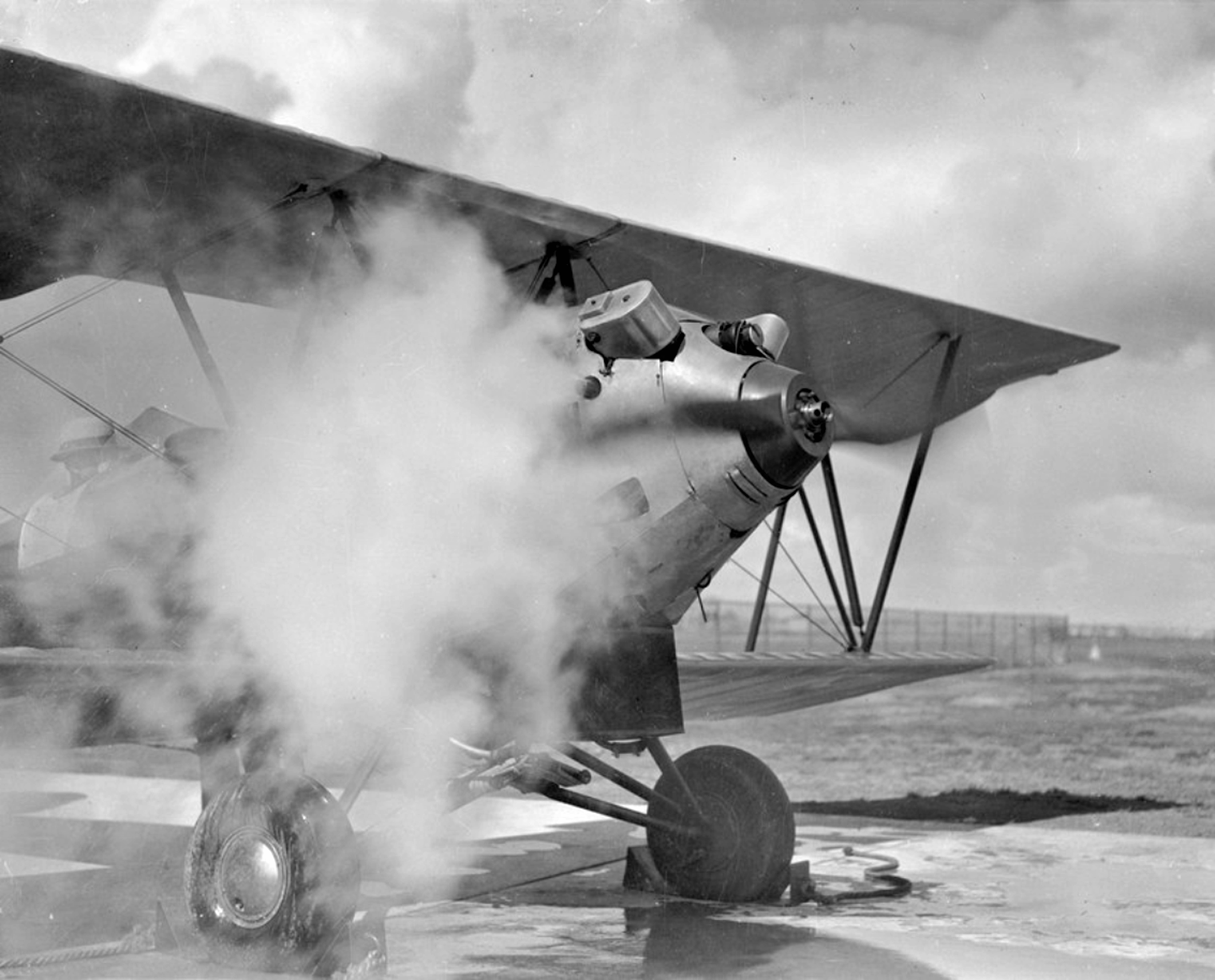 image description: "Here is the first plane in the world's history to be flown powered by a steam engine. It is shown before the take-off enveloped in its own steam"